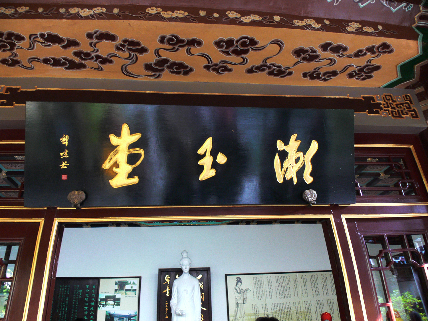 Li Qingzhao's former residence Rinse Jade Hall in Li Qingzhao Memorial, Jinan